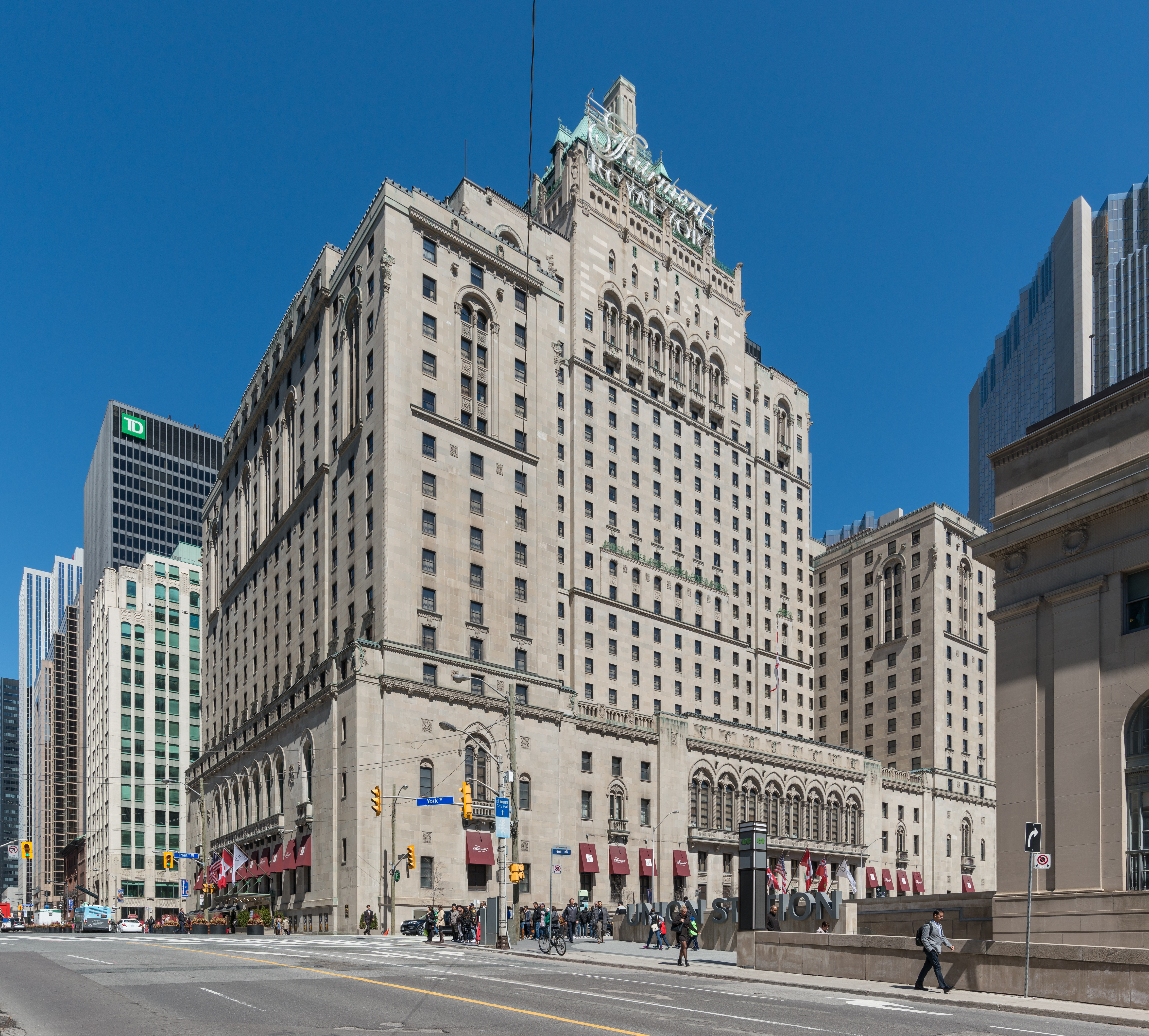 A southwest view of the Fairmont Royal York hotel